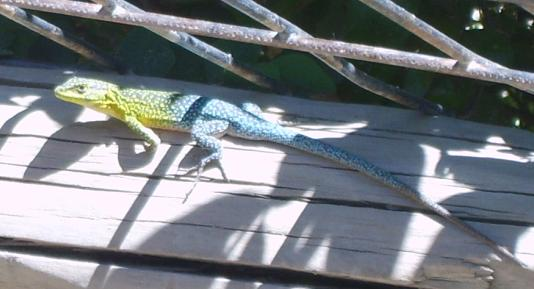 Liolaemus tenuis